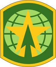 Shoulder Sleeve Insignia of the 16th Military Police Brigade